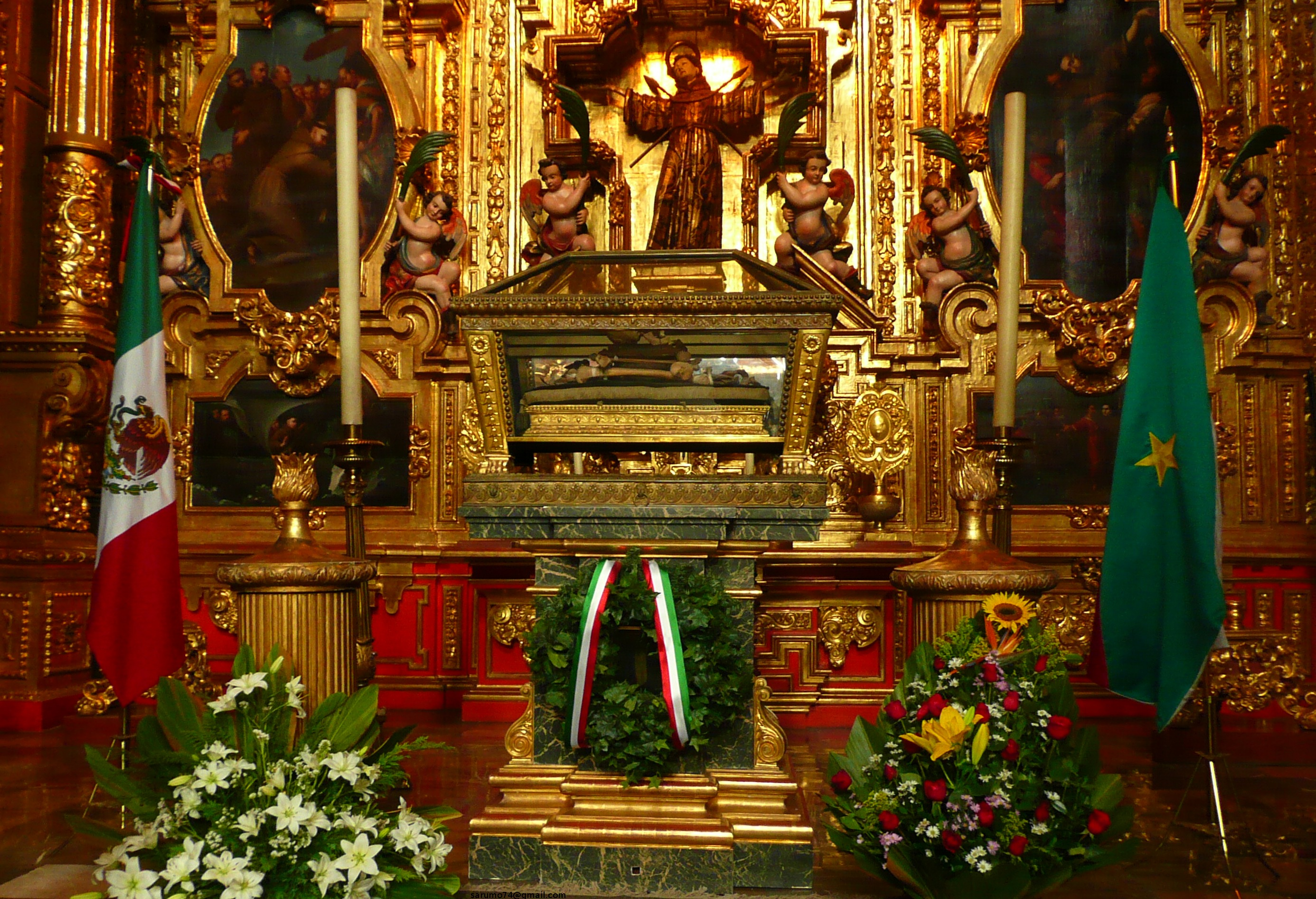 Exhibition of the skeleton of Emperor and General Agustín de Iturbide in the Metropolitan Cathedral in Mexico City, on the occasion of the celebrations of the bicentennial of the beginning of the War of Independence from Mexico. Picture taken after the liturgical celebration held in his honor on September 27, 2010.